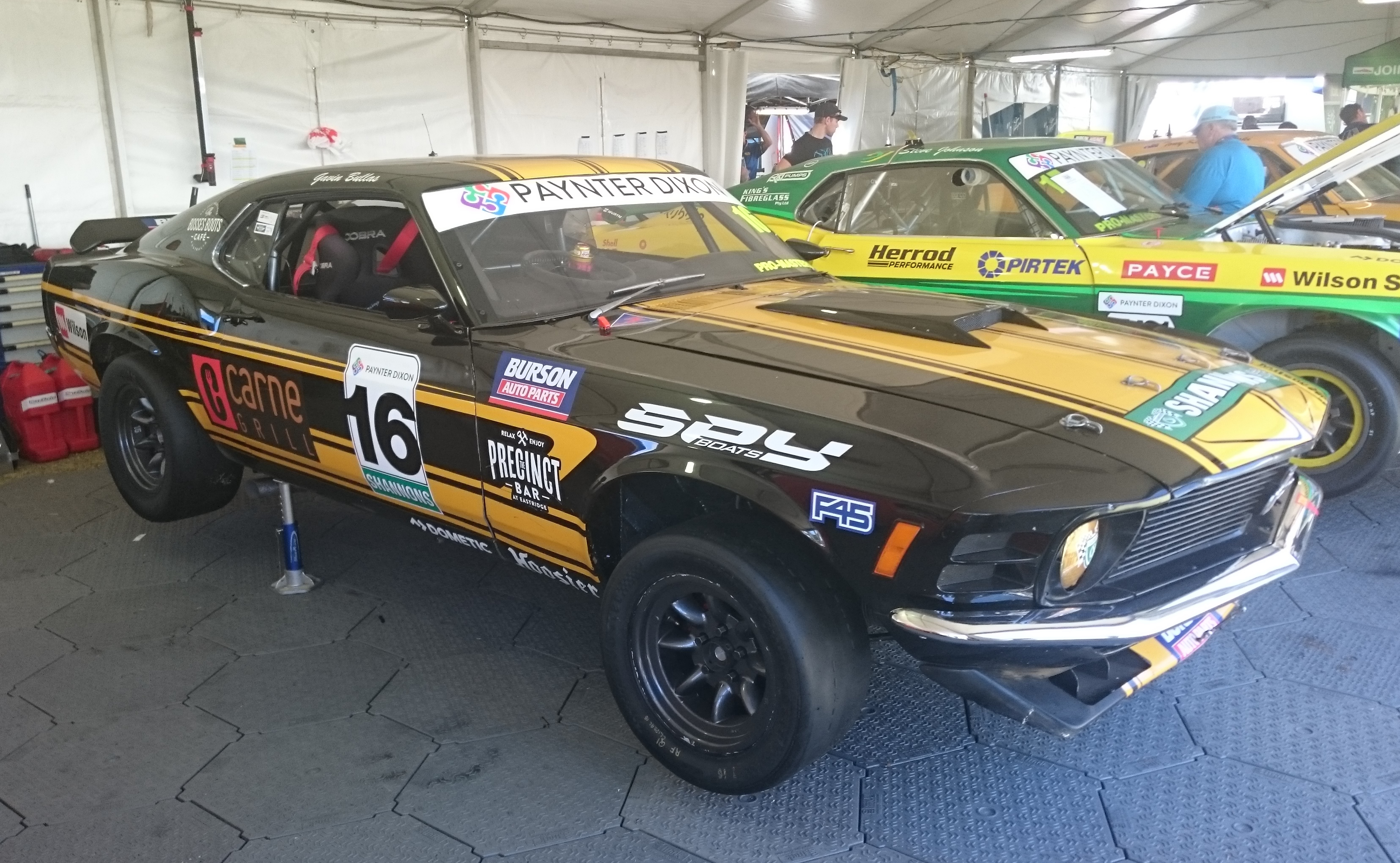 Ford Mustang of Gavin Bullas, Adelaide, 2018